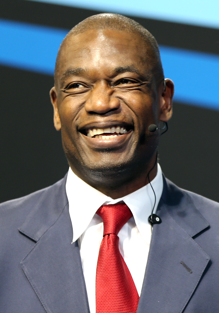 Former NBA center Dikembe Mutombo speaks at the Aspire4Sport Congress in Doha. Picture by Vinod Divakaran